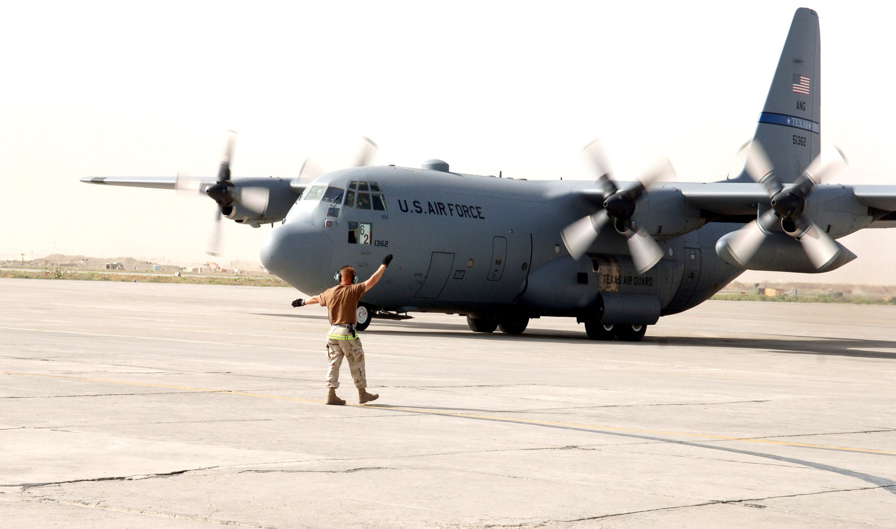 Tech. Sgt. Dale Durham taxiis a C-130 Hercules from the Bagram parking ramp. Sergeant Durham is in the Texas Air Natioanl Guard 136th Aircraft Maintenance Squadron at Carswell Field, Fort Worth, Texas.